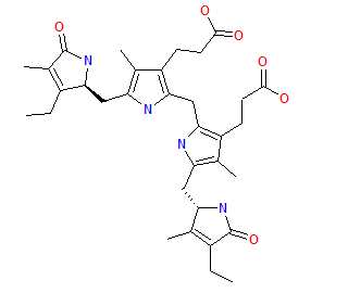 The structure of Urobilinogen